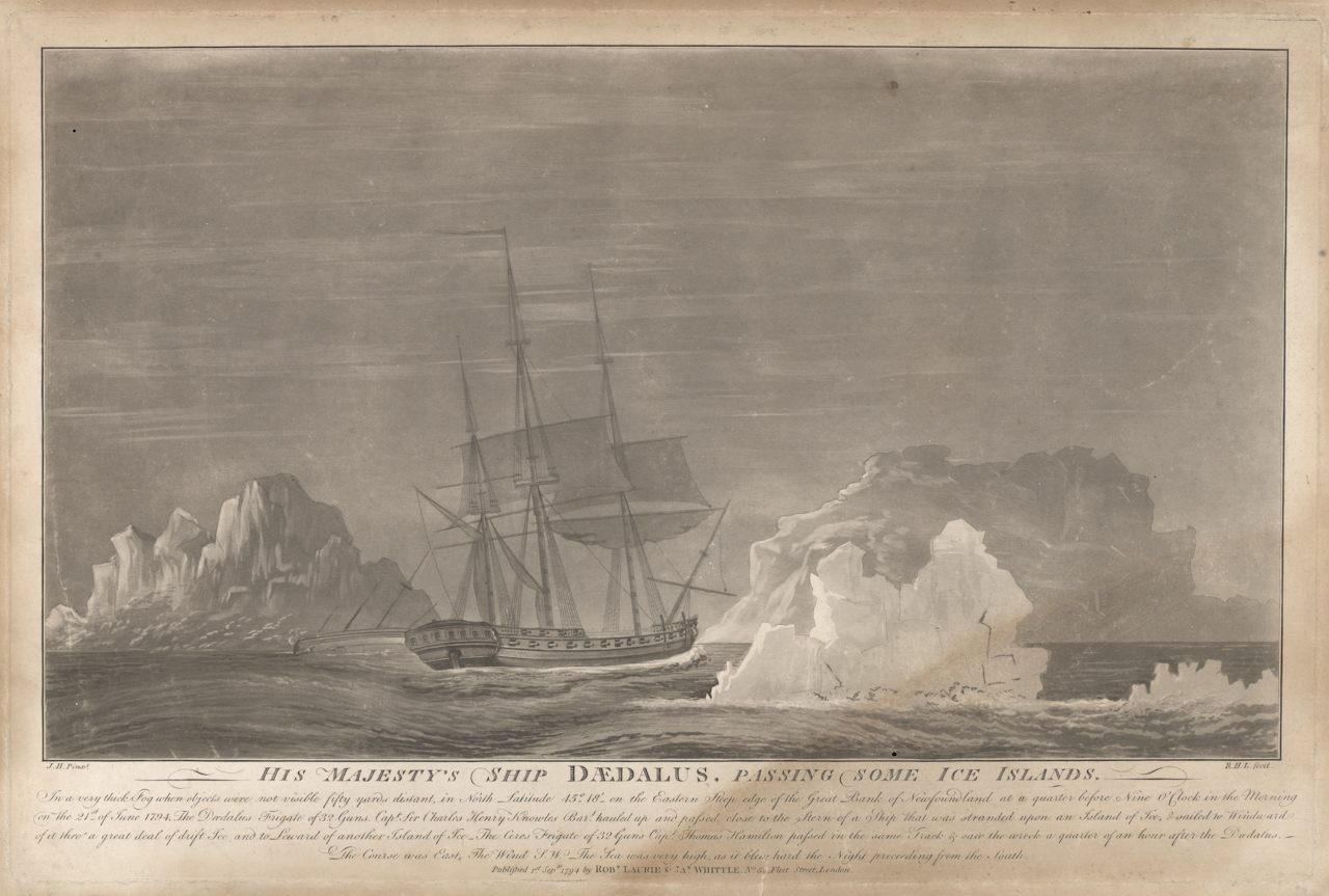 His Majesty's Ship Daedalus passing some ice islands.... on the Eastern Steep edge of the Great Bank of Newfoundland The 32-gun fifth rate frigate 'Daedalus' is shown passing some ice islands on the eastern steep edge of the great bank of Newfoundland on June 21st 1794. Inscribed: "His Majesty's Ship Daedalus, passing some ice islands. In a very thick Fog when objects were not visible fifty yards distant in North Latitude 45o 18' on the Eastern Steep edge of the Great Bank of Newfoundland at a quarter before Nine o'clock in the Morning on the 21st of June 1794. The Daudalus Frigate of 32 Guns. Capt. Sir Charles Henry Knowles Bart. hauled up and passed close to the Stern of a Ship that was stranded upon an Island of Ice, & sailed to Windward of it throu' a great deal of drift Ice and to Leward of another Island of Ice. The Ceres Frigate of 32 Guns Capt. Thomas Hamilton passed in the same Track & saw the wreck a quarter of an hour after the 'Daedalus'. The course was East, The Wind S.W. The Sea was very high, as it blew hard the Night preceding from South." Stored in mount with PAH0736. His Majesty's Ship Daedalus passing some ice islands.... on the Eastern Steep edge of the Great Bank of Newfoundland